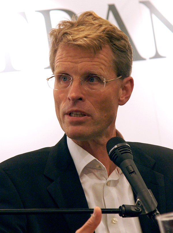 Bo Lidegaard - Danish historian, writer, and editor in chief of daily broadsheet newspaper Politiken